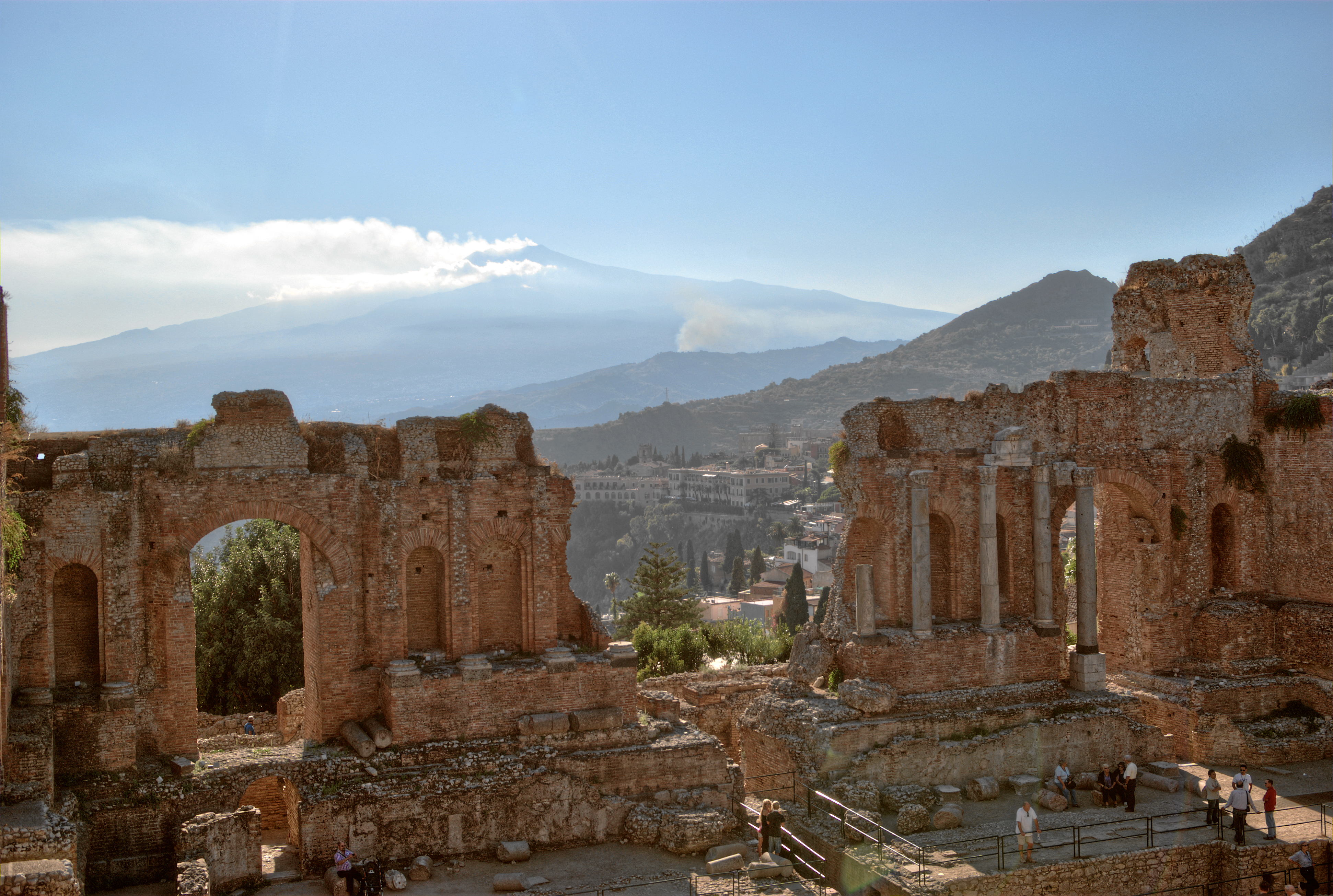 Italy, Sicily, Taormina, ancient theatre